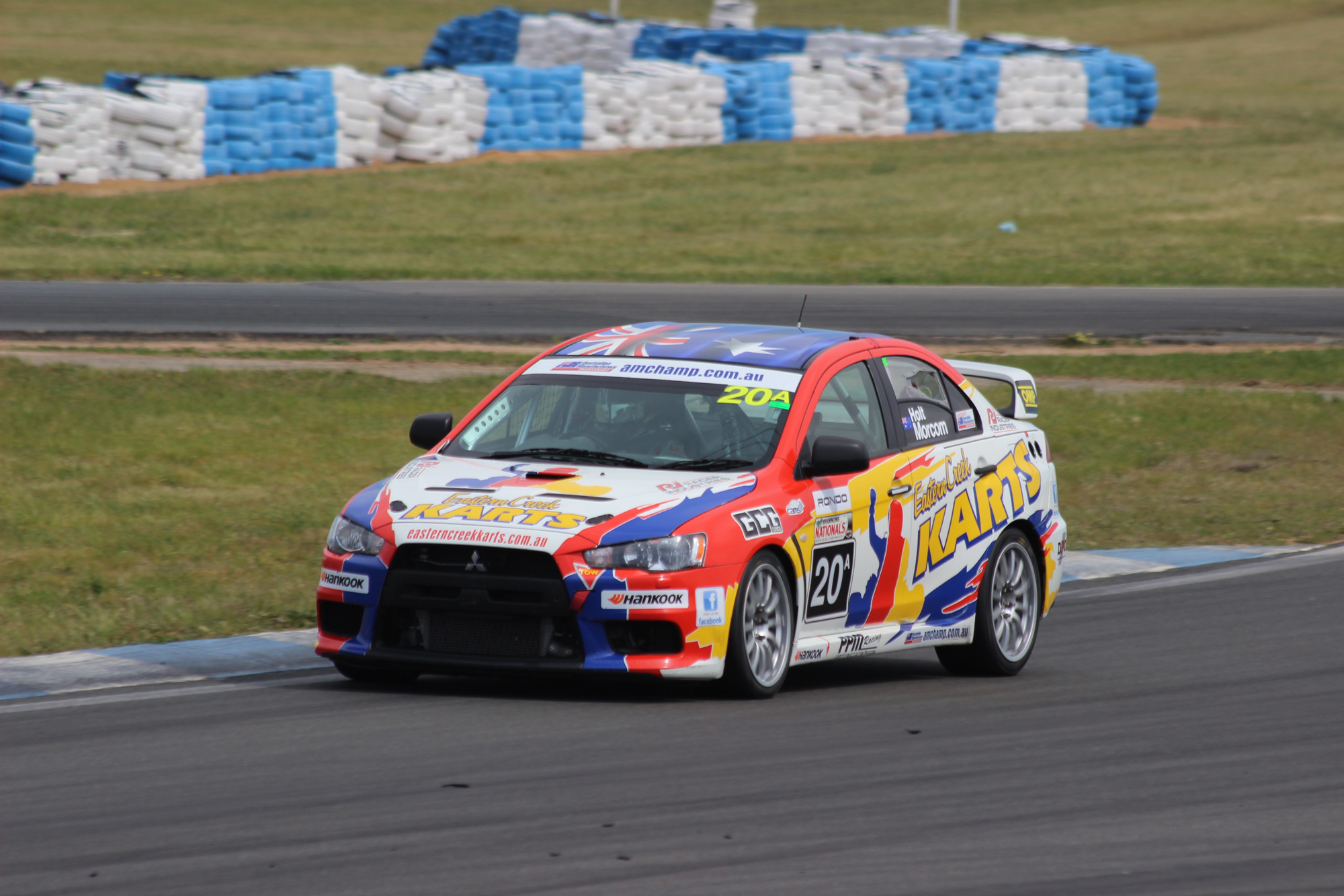 2013 Australian Production Car champion Garry Holt at Wakefield Park Raceway.